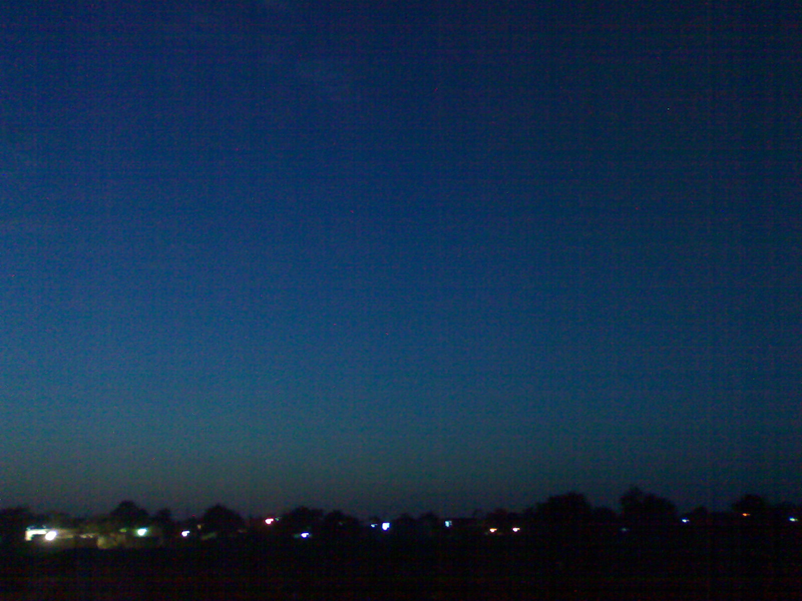 Twilight after Sunset in Parbhani.